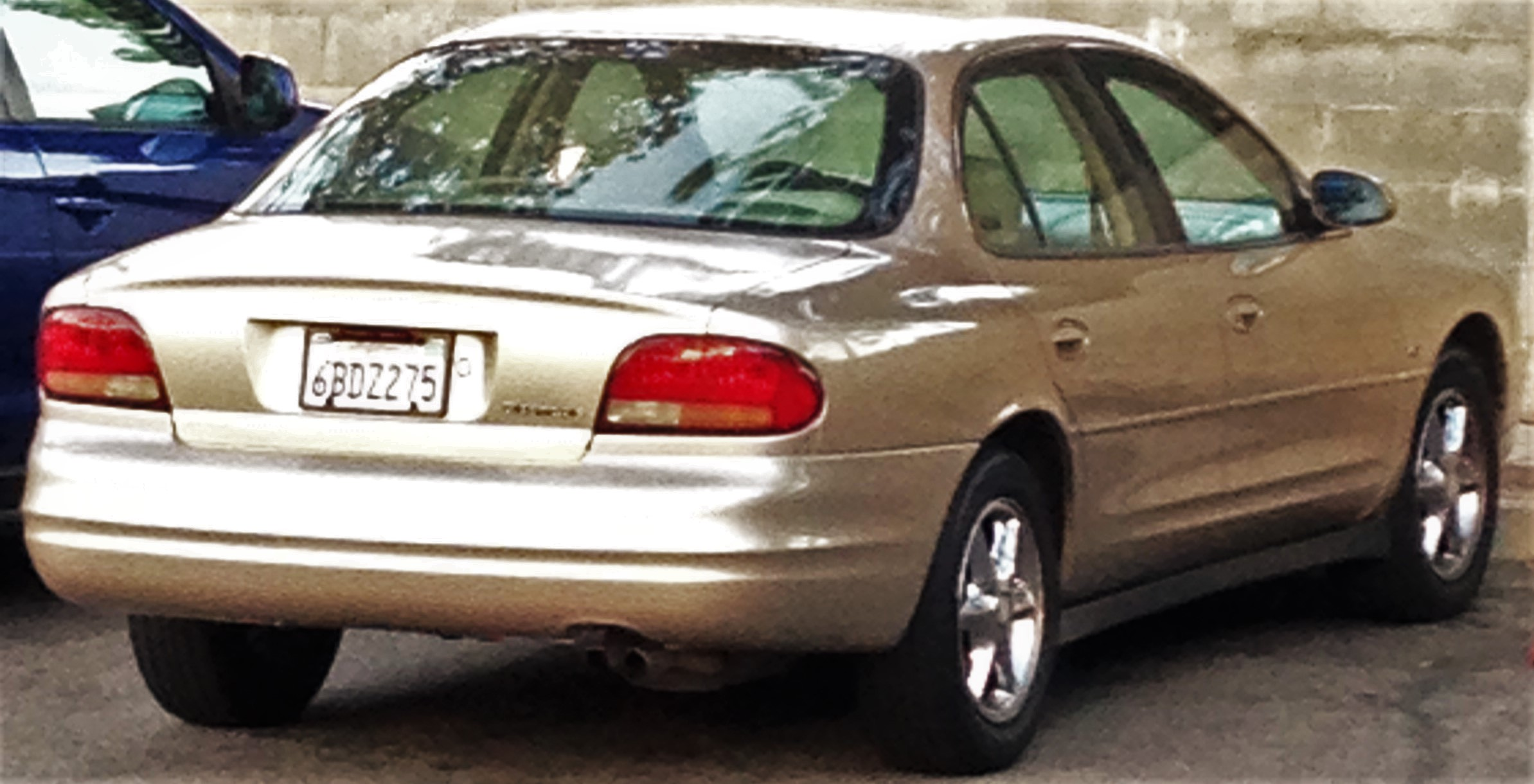 Oldsmobile Intrigue